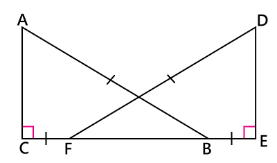 RHS